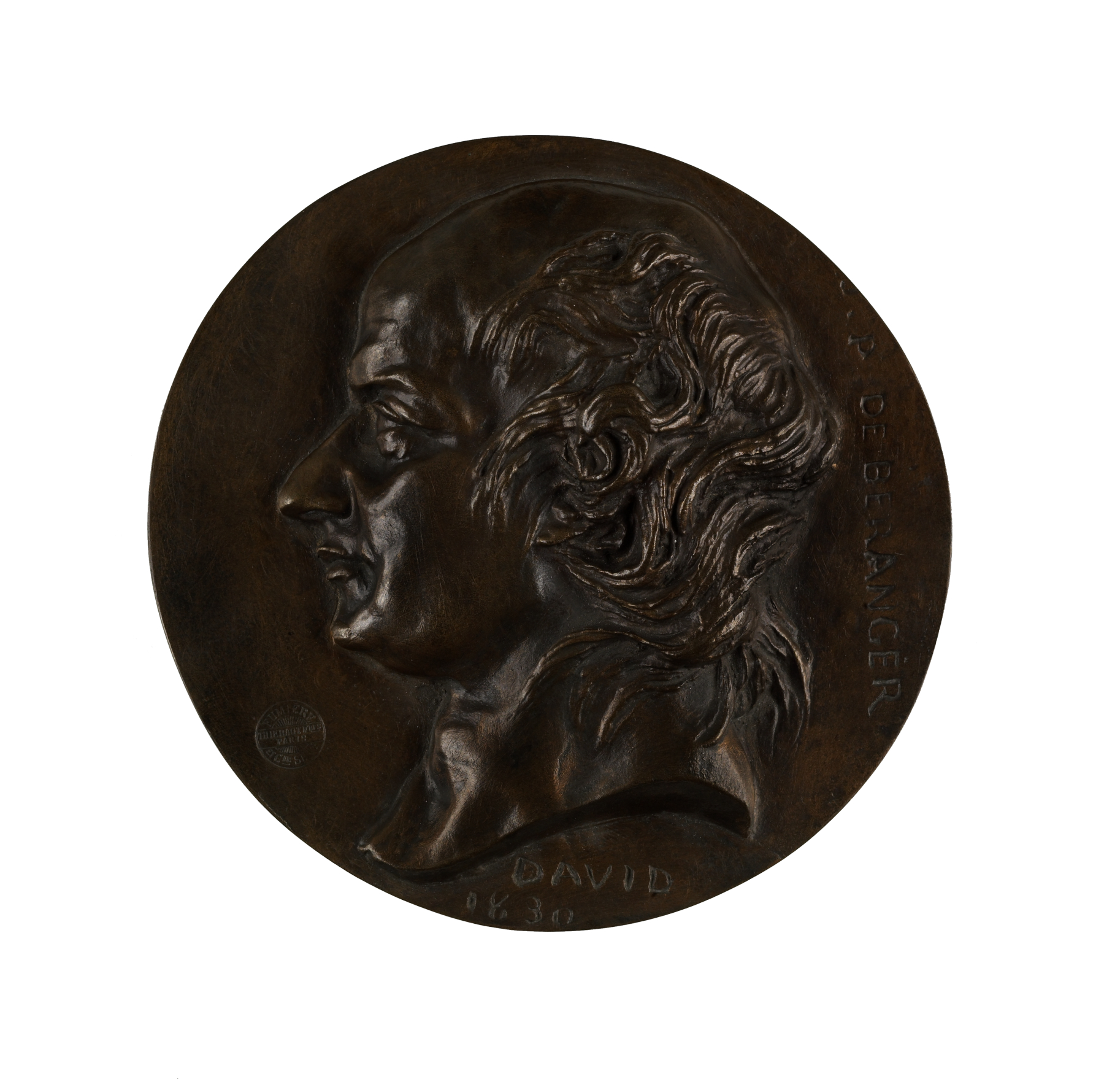 Pierre-Jean de Béranger, French poet, was born in Paris in 1780. He enjoyed great popularity as a lyric poet, writing political, amatory, philosophical, and satirical songs, the first collection published in 1815. He held a clerkship at the Imperial University until 1821, and for expressing his Bonapartist and republican sympathies in 1821 and 1828, he was twice prosecuted under the Bourbon Restoration. Béranger was elected to the Constituent Assembly from the department of the Seine in 1848, and he died in Paris in 1857.